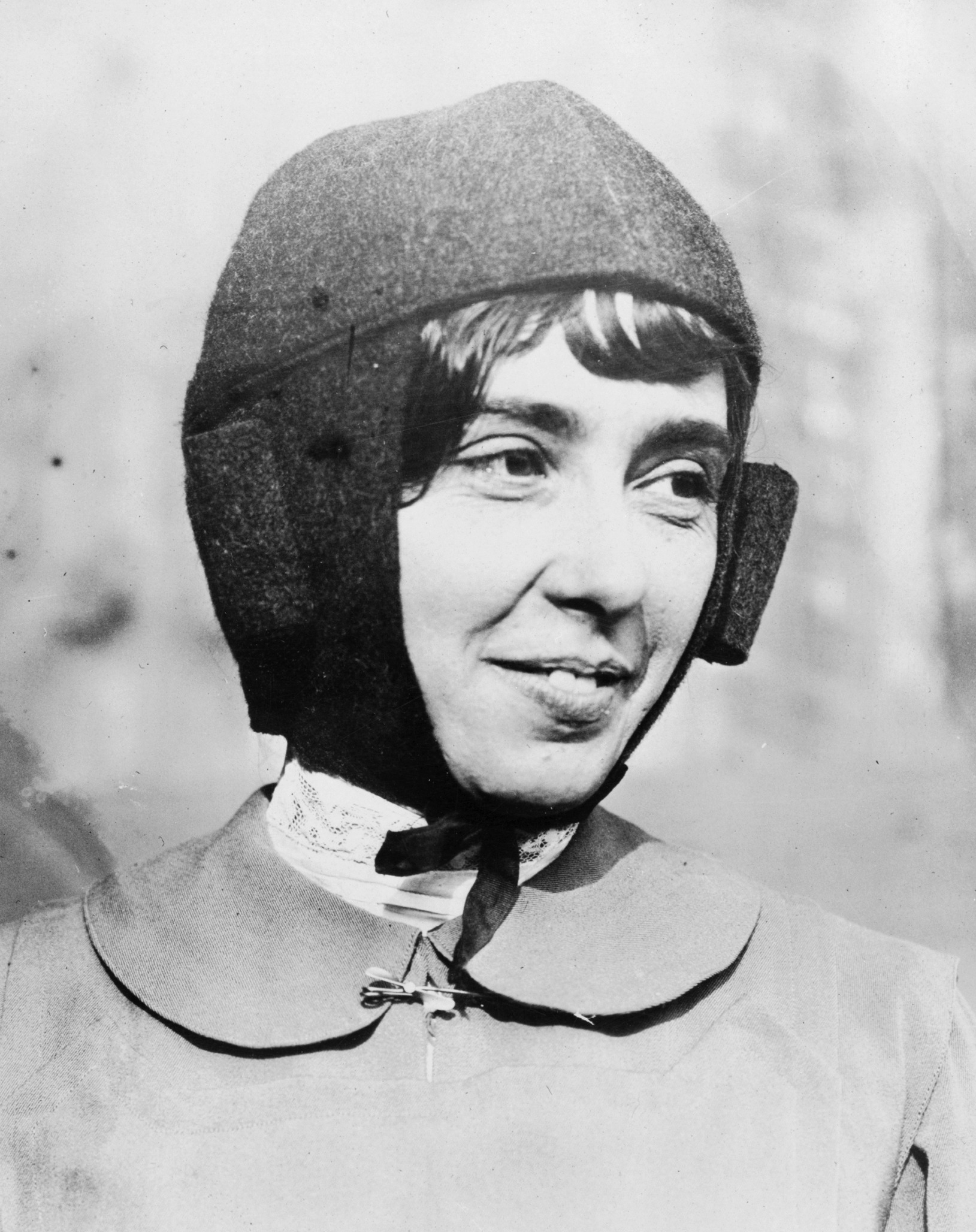 Hélène Dutrieu, head-and-shoulders portrait, facing right, wearing aviator clothing.